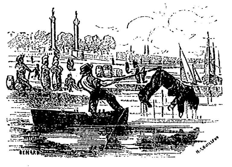 Coverpage of a book by Mèste Verdièr